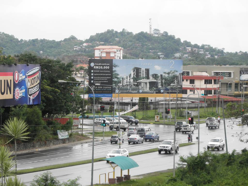 It was a very fresh and slow morning for everyone in Kota Kinabalu today after hours of long awaited rain came down over the city. I went to Foo Chow Building to photograph the visibility and boy, the haze was gone for good and KK got its true beauty back. As you can see, it just stopped raining so the roads are wet. The details on Kopungit Hill are really clear now, and the National Archives Building is visible too, with the Sabah Art Gallery coming up next to it.